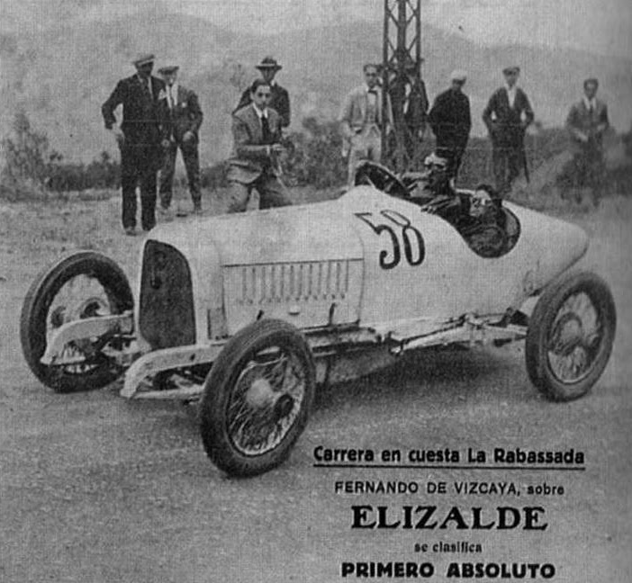 An Elizalde car in the Pujada a la Rabassada, a race in Barcelona (Catalonia) circa 1923